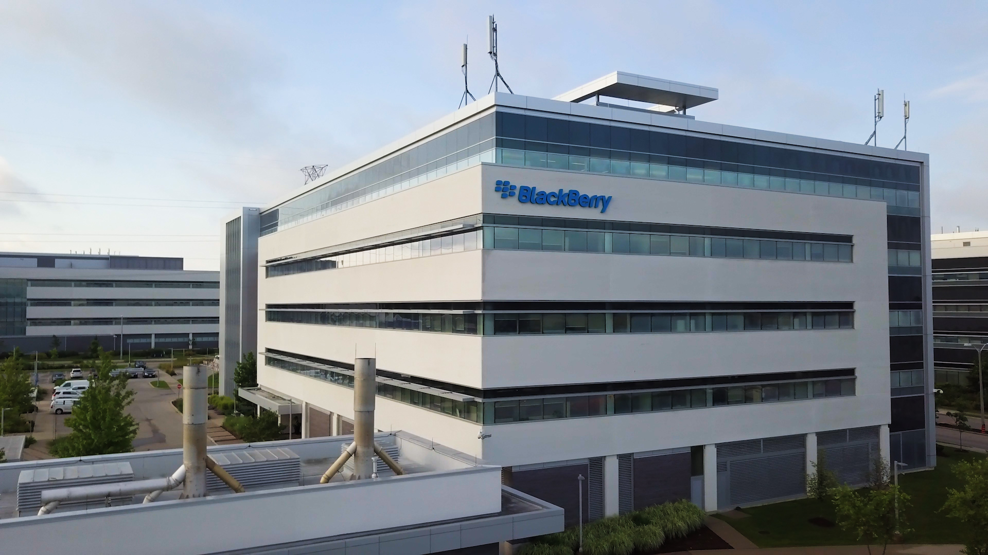 BlackBerry Limited Waterloo Campus